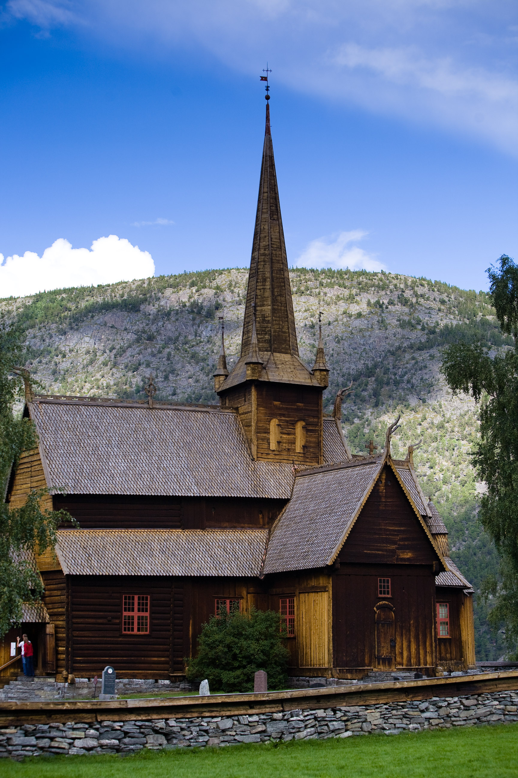 en: Lom Stave Church The church dates to approximately second part of 12th century, but was rebuilt into cruciform during the 1600s. The chancel was decorated in 1608, and the nave was enlarged towards west in 1634. The cross section was added in 1663, but this was made in stave like frame work. A complete restoration took also place in 1933, and a smaller one in 1973. This stave church is actually one of just a very few stave churches of which the original medieval crest with a dragon head still survives.